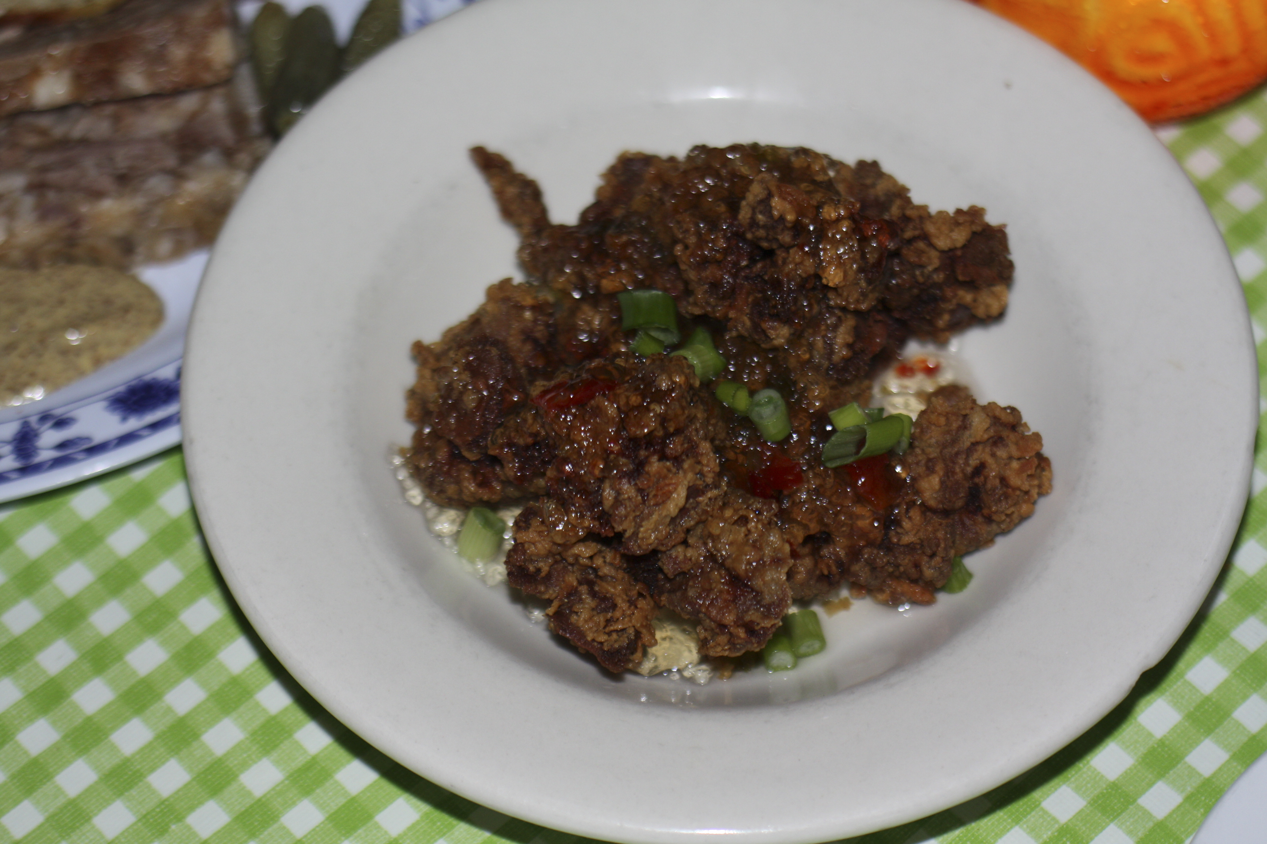 Elizabeth's Restaurant, Bywater, New Orleans. Fried chicken livers with Elizabeth's pepper jelly. Too much batter, not enough liver. Pepper jelly was great.